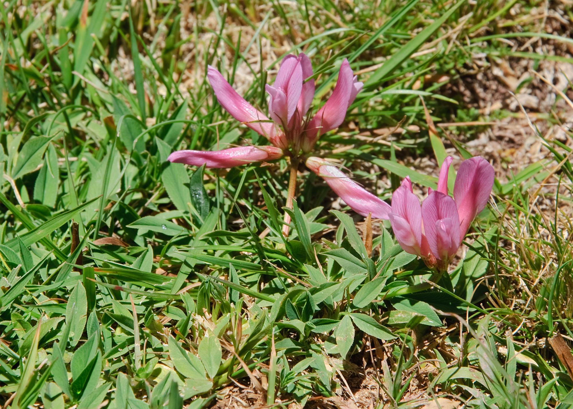 Trifolium alpinum, near the lake of Estaens (or 'ibón de Estanés') in the Pyrenees.